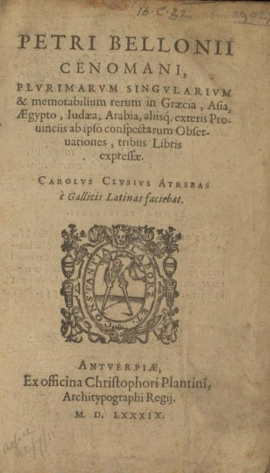 Pierre Belon, Observationes, tranbslated by Carolus Clusius, title page. Wellcome Institute copy